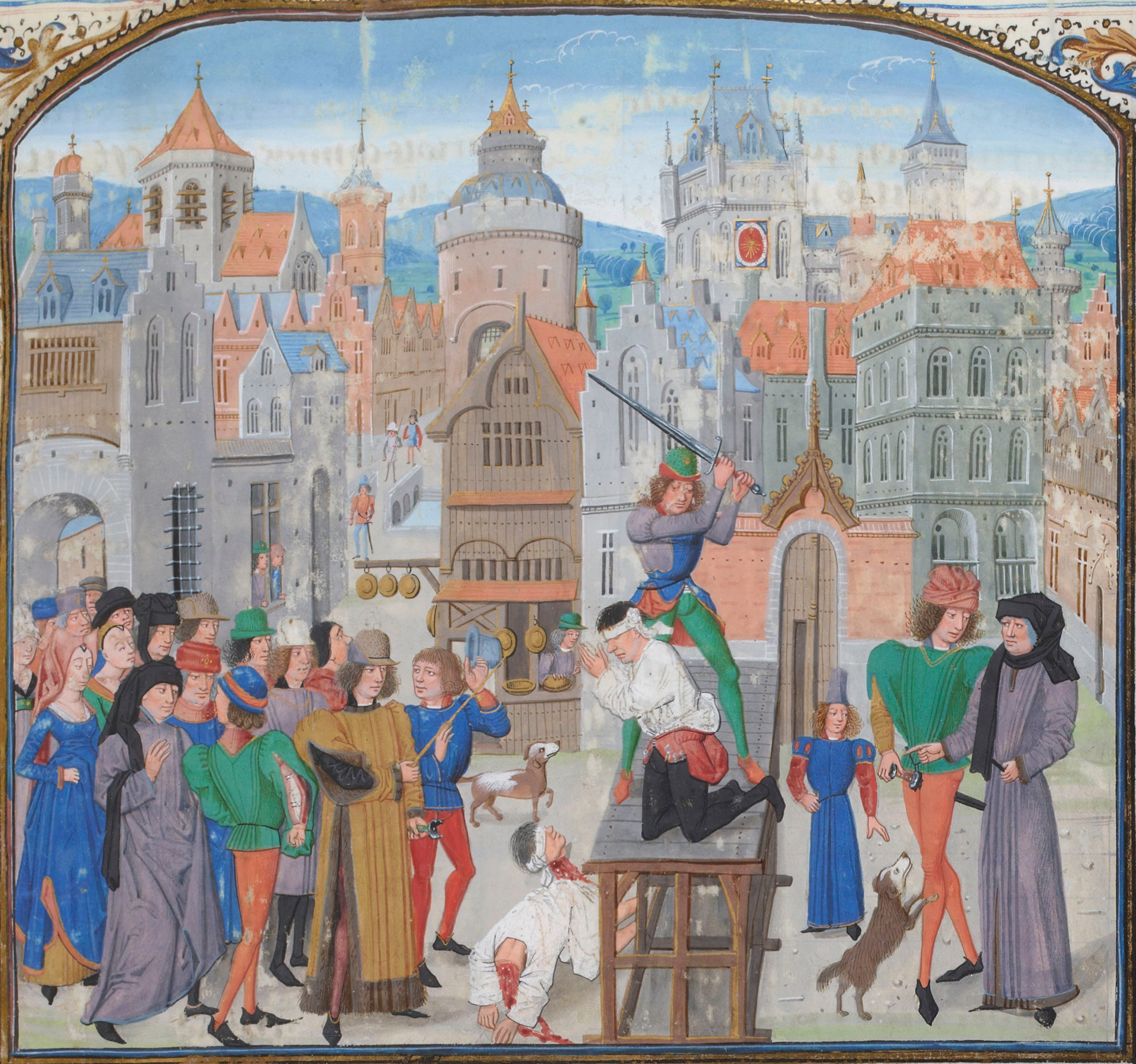 Guillaume Sans, lord of Pommiers, is executed in Bordeaux on the orders of Thomas Felton, the city's English seneschal. (BNF, FR 2644) Jean Froissart, Chronicles, fol. 1. Flandres, Bruges 15th Century. (185 x 200 mm)